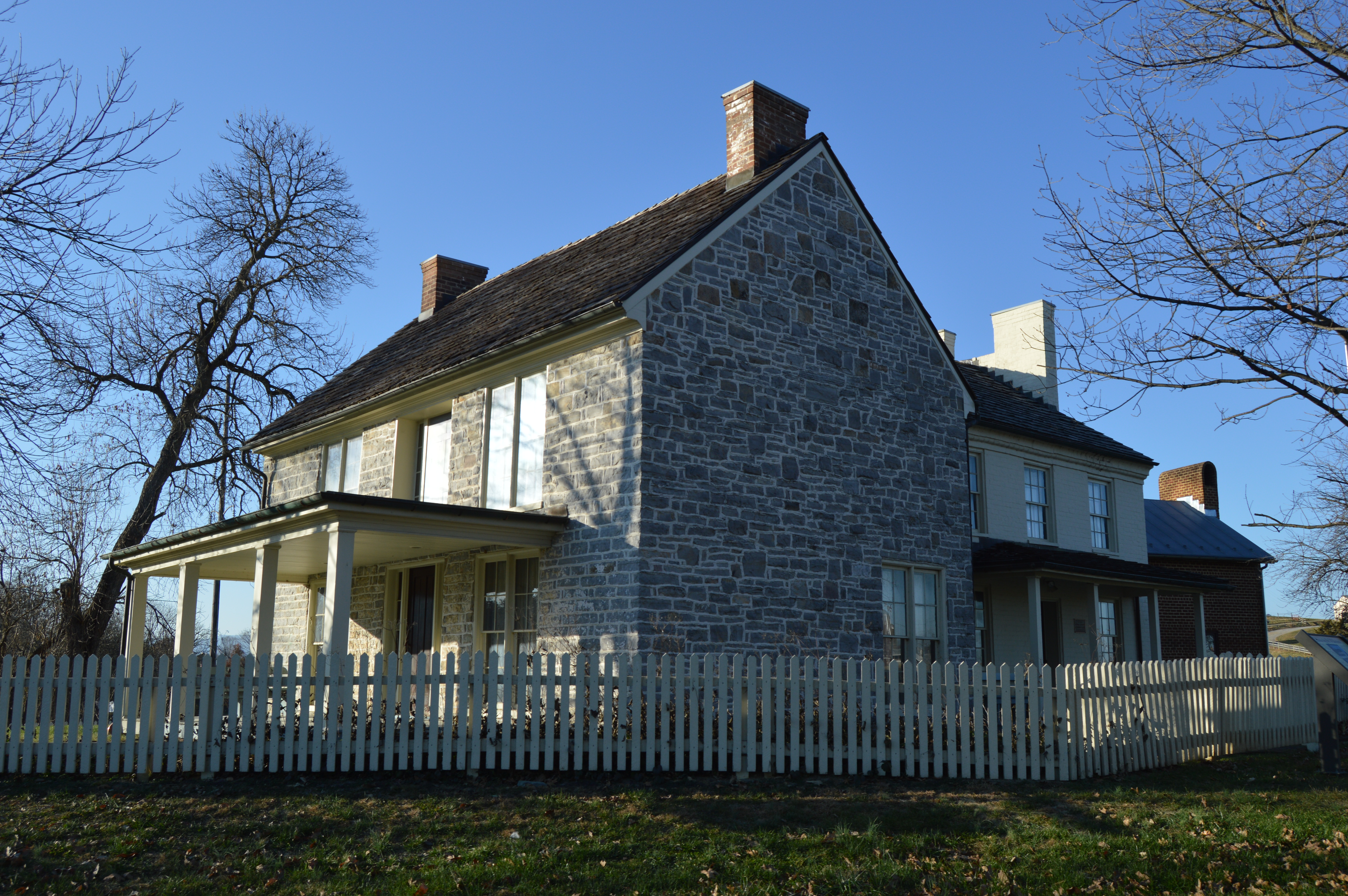 Front and southeastern side of the Daniel Harrison House, located on Main Street in northern Dayton, Virginia, United States. Built in 1748, it is listed on the National Register of Historic Places.